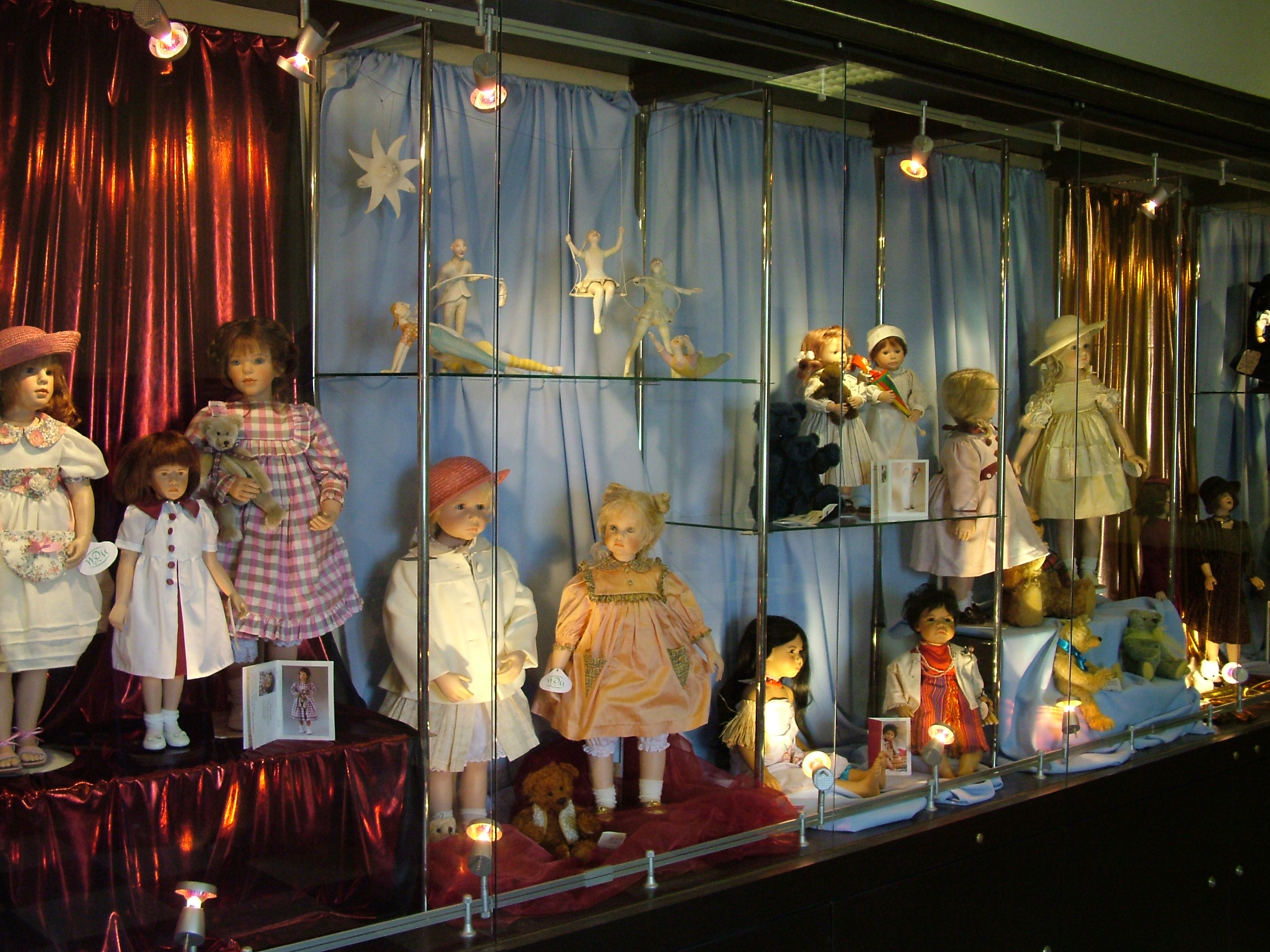 From the image's description page at the German Wikipedia, roughly translated: "The picture was made on the occasion of an exhibition opening with my permission of a Hungary in Budapest and is at the free disposal."